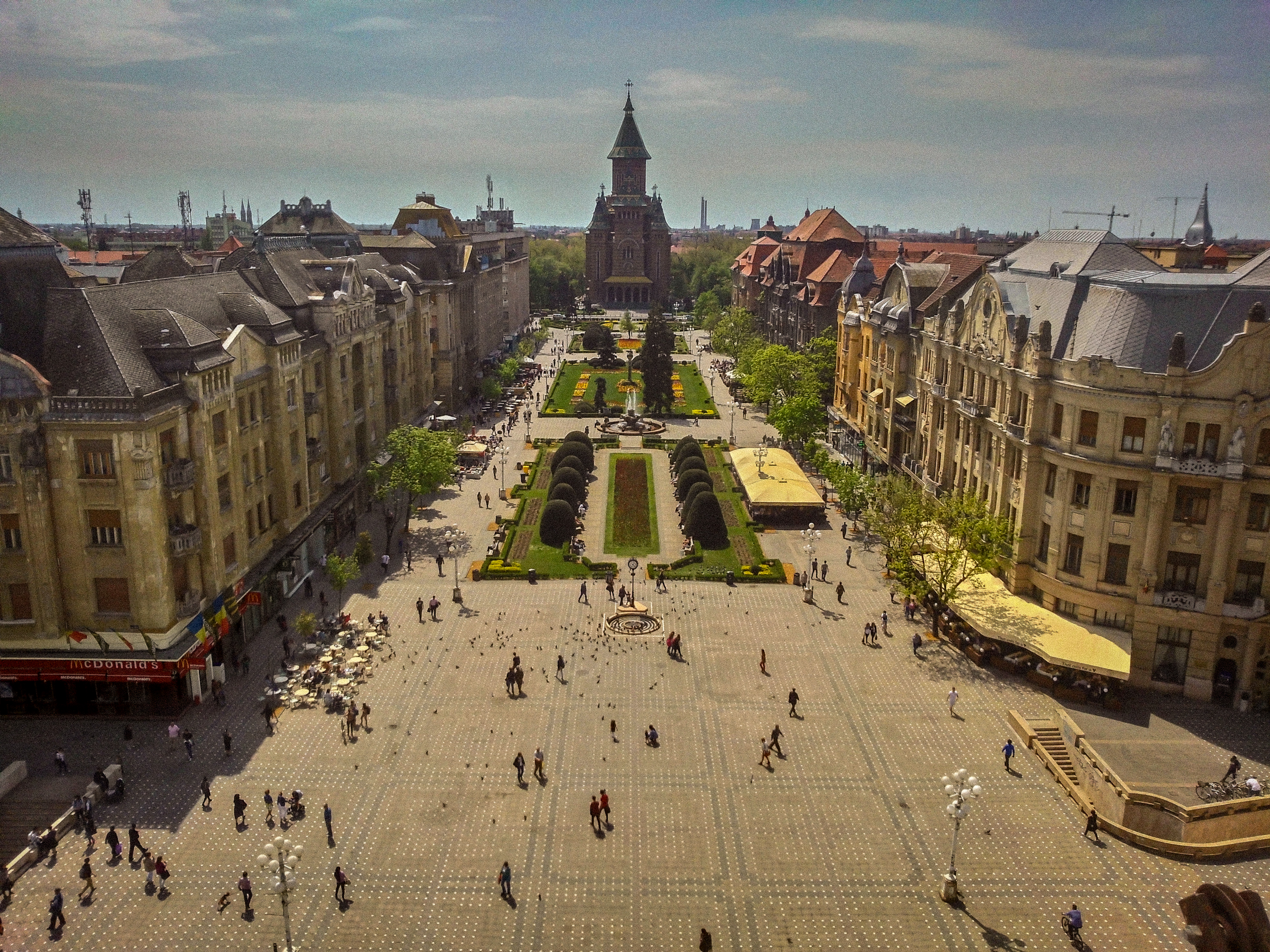 Victory Square (aka. Opera Square)